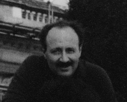 Maryam Farman Farmaian (Firouz) and her husband Noureddin Kianouri, Berlin, 1964